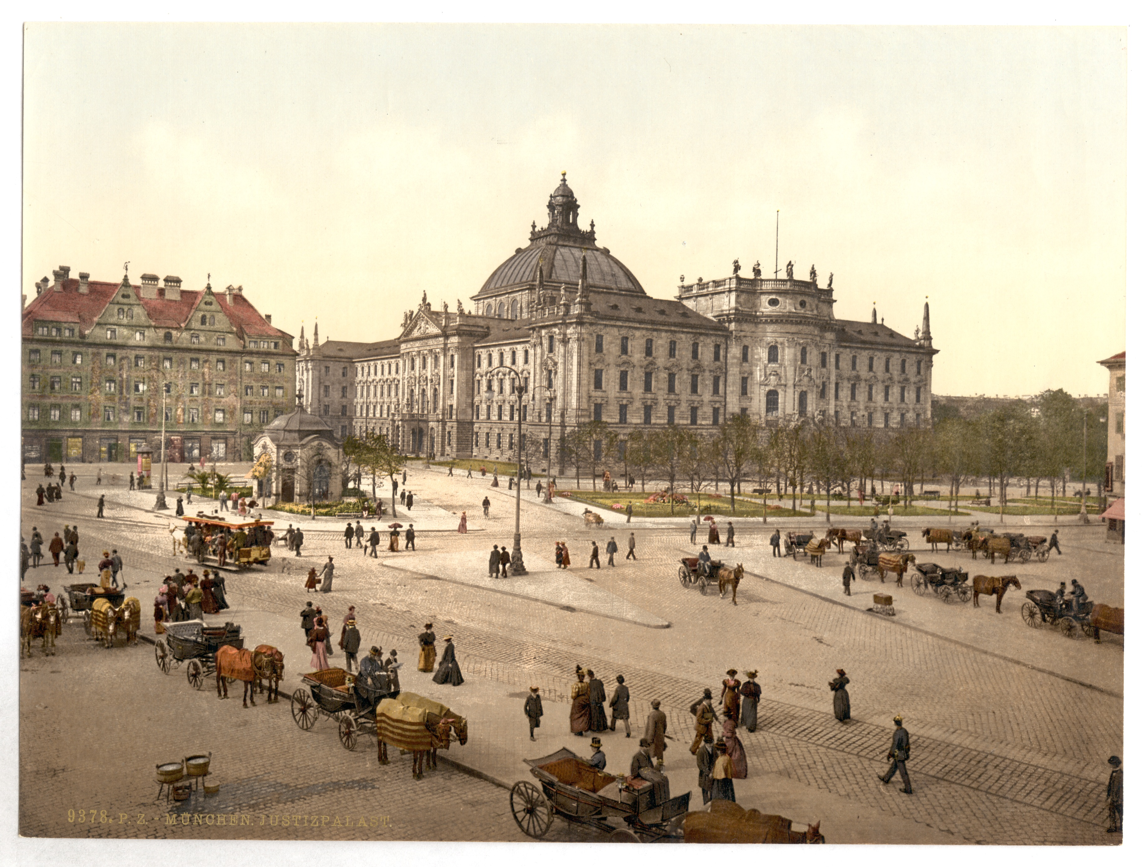 Title from the Detroit Publishing Co., catalogue J-foreign section. Detroit, Mich. : Detroit Photographic Company, 1905.; Forms part of: Views of Germany in the Photochrom print collection.; Print no. "9378".